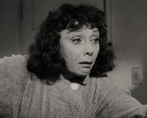 Judith Evelyn in The Tingler (1959) - trailer (cropped screenshot)